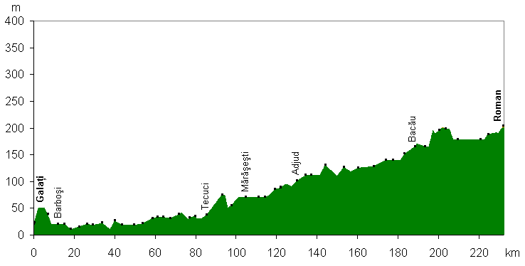 elevation profile of the railway track Galati-Roman